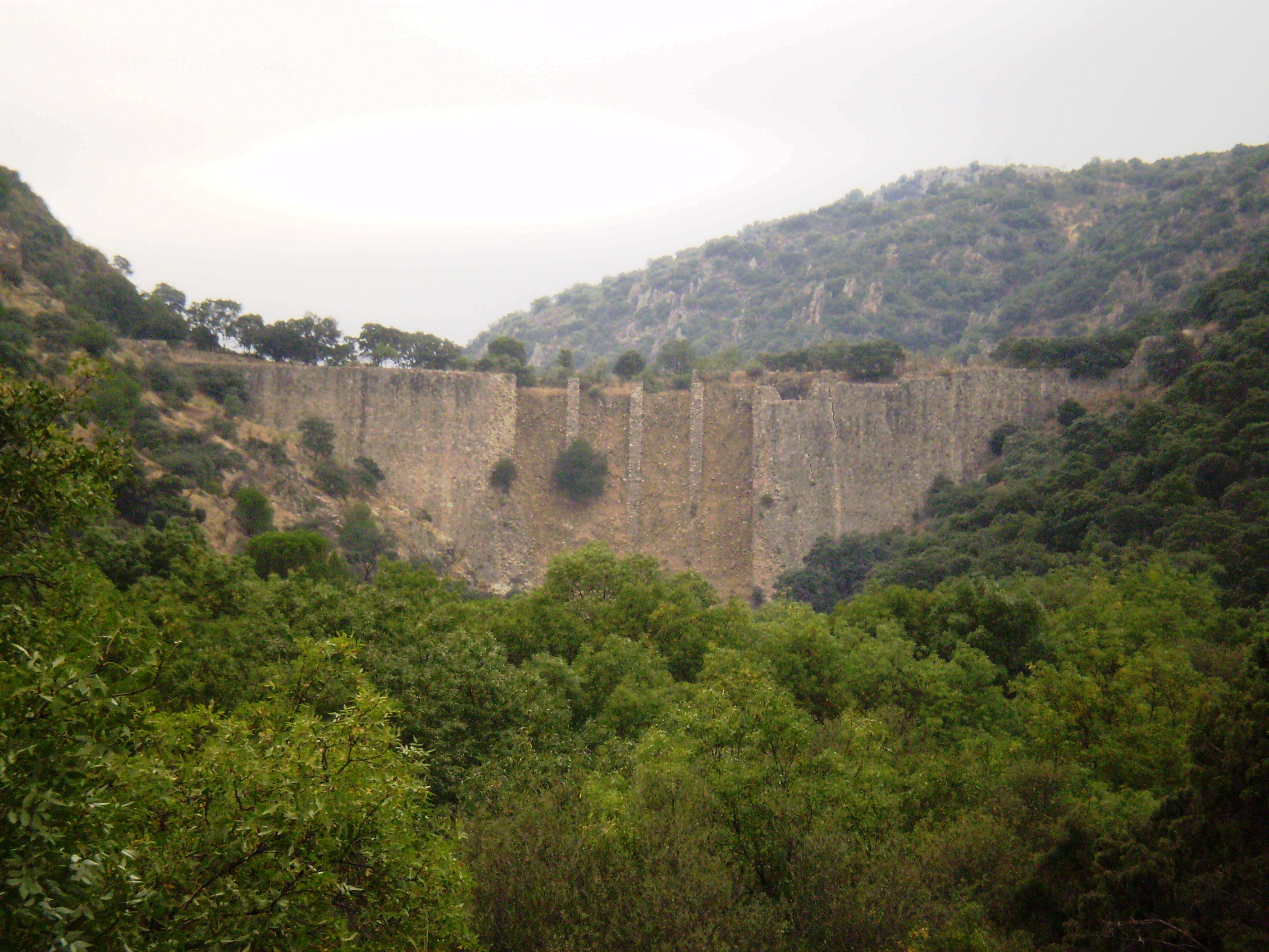 Presa de El Gasco, 18th century. Torrelodones, Community of Madrid, Spain